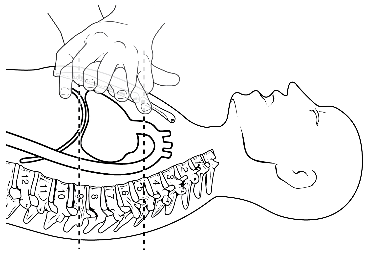 Illustration from Anatomy & Physiology, Connexions Web site. Jun 19, 2013.